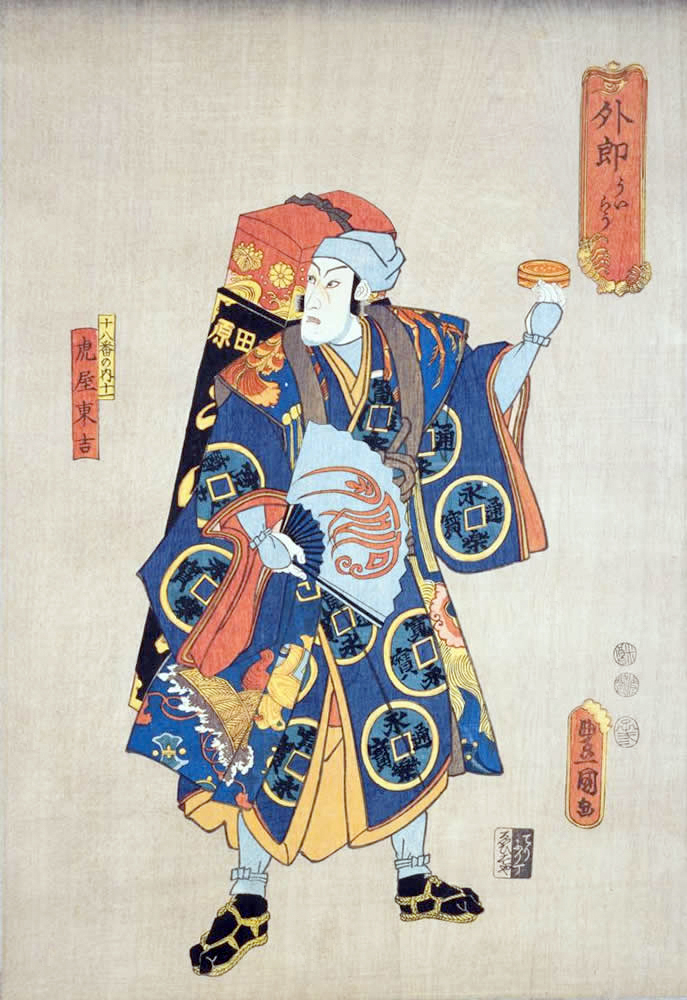 Uiro-uri (Uiro salesman), Kabukiplayer, 19th century woodblock print